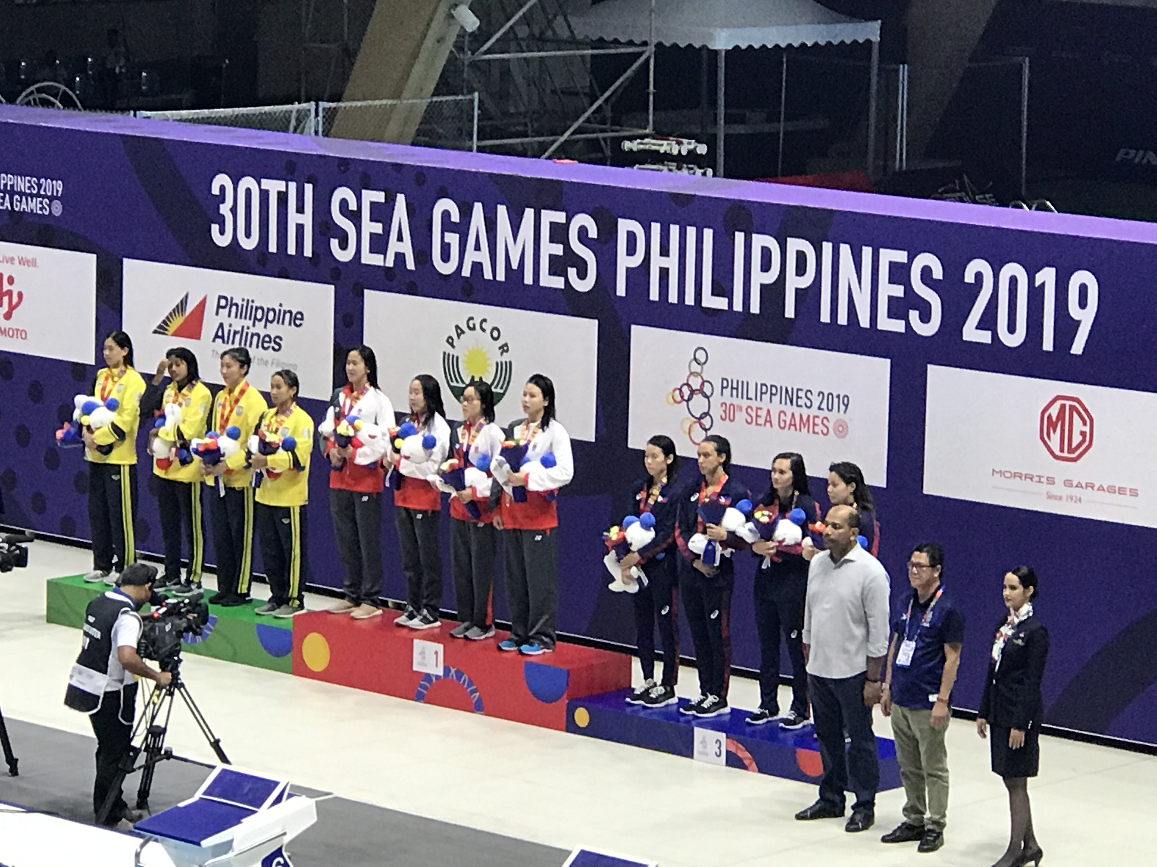 Philippines (right) wins the Bronze medal in the Women’s 4 X 200m Freestyle Relay Swimming competition of the 30thSouth East Asian Games. Singapore bags the Gold while Thailand takes home the Silver.